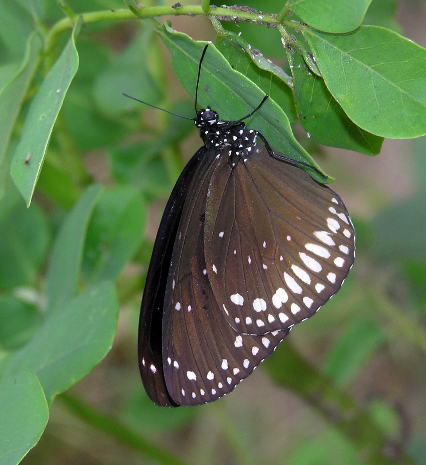 Euploea sylvester They migrate in large numbers in South India. Photo taken at the outskirts of Brahmagiri wildlife Sanctuary, India